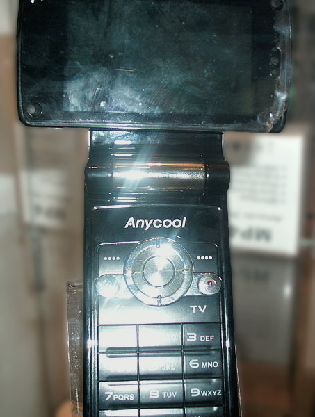 Photo of the Anycool V876, a Chinese-made mobile phone from before 2008 (likely 2007). This is a retouched picture, which means that it has been digitally altered from its original version. Modifications: Cropped out SD cards, blurred background, changed brigtness. The original can be viewed here: Anycool mobile phone with television.jpg: . Modifications made by Khu'hamgaba Kitap.